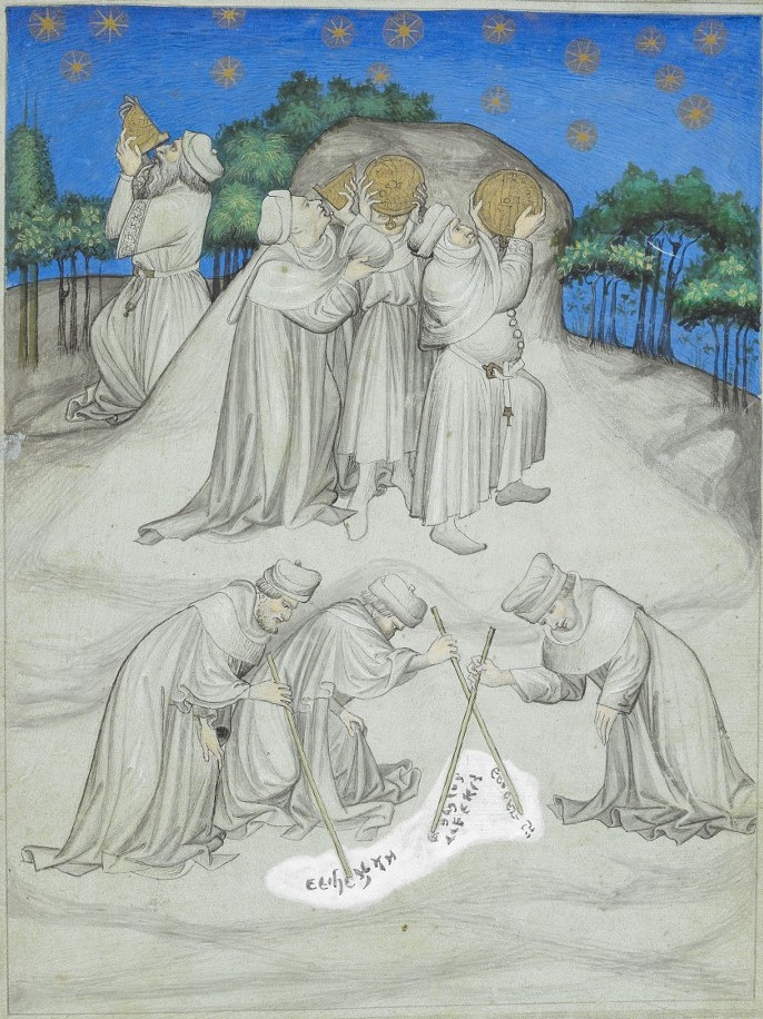 Astronomers on Mount Athos - Mandeville's Travels - BL Add Ms 24189